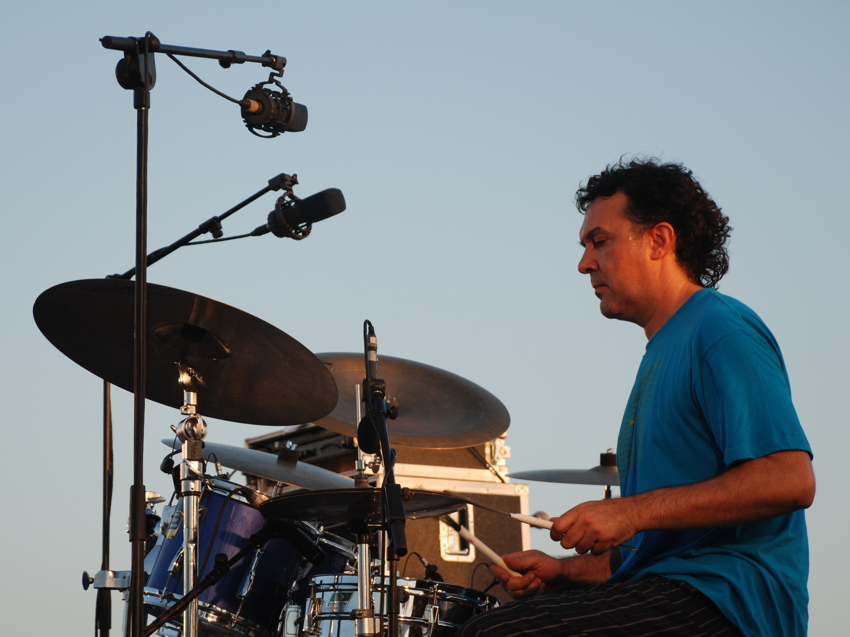 Spanish Latin jazz percussionist Tino di Geraldo in Echeverria, Malaga.